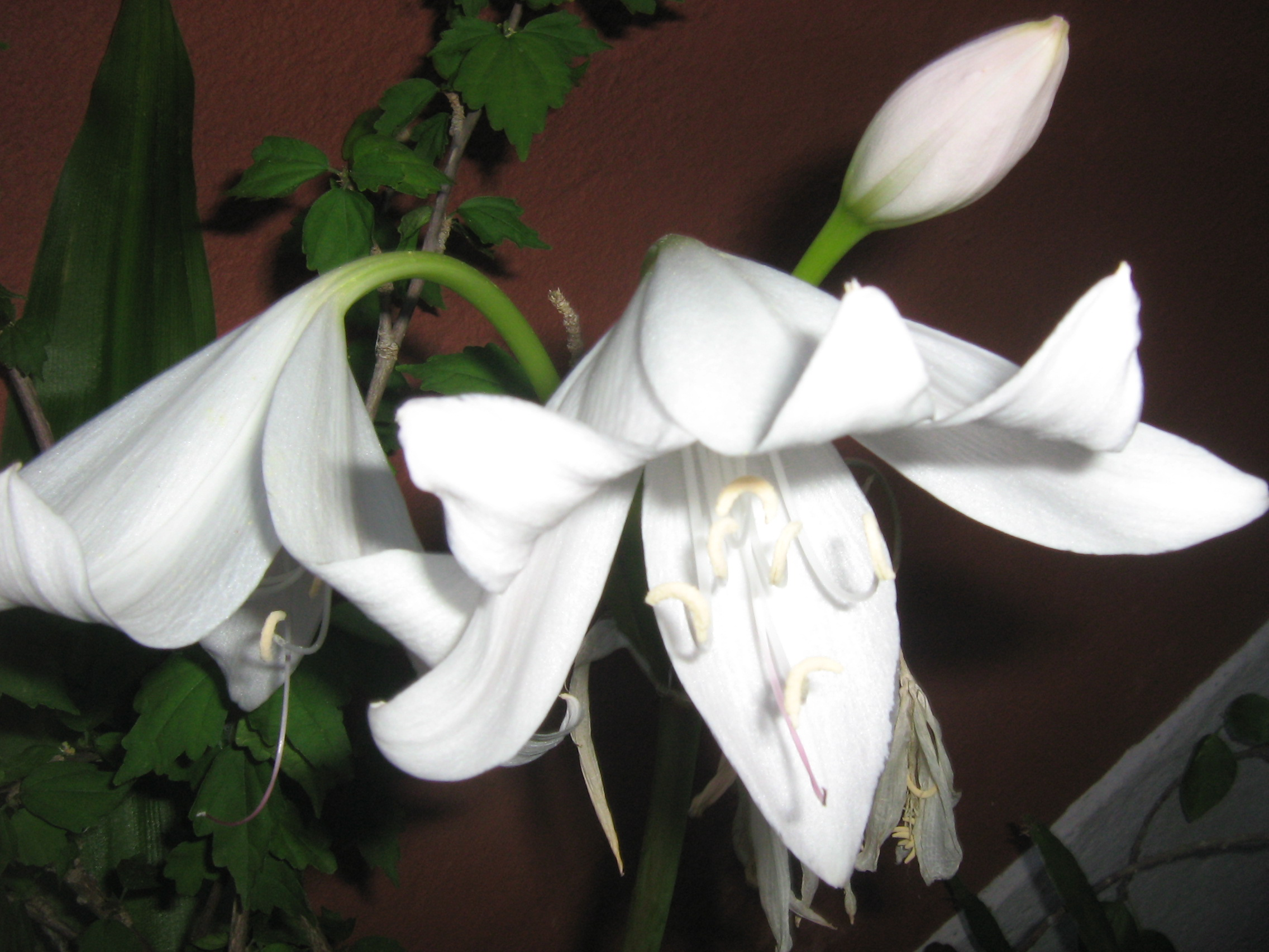 A white flower in my first night in vacations Uma flor branca na minha primeira noite em férias